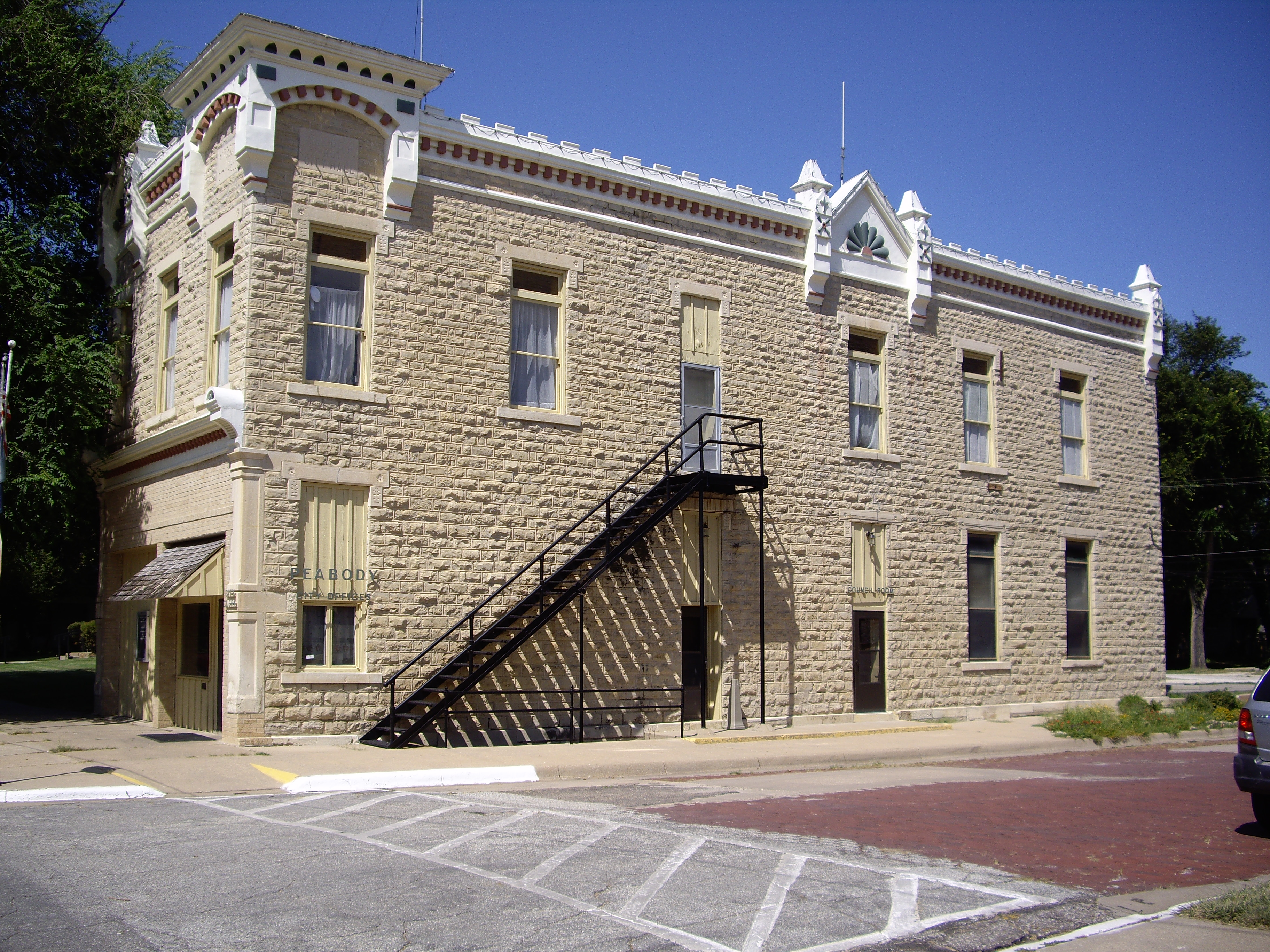 Historic 1886 Peabody City Hall, 300 N Walnut St, Peabody, Kansas, 666866, USA. Looking towards NNE. Photo by Steve Meirowsky on August 4, 2010.